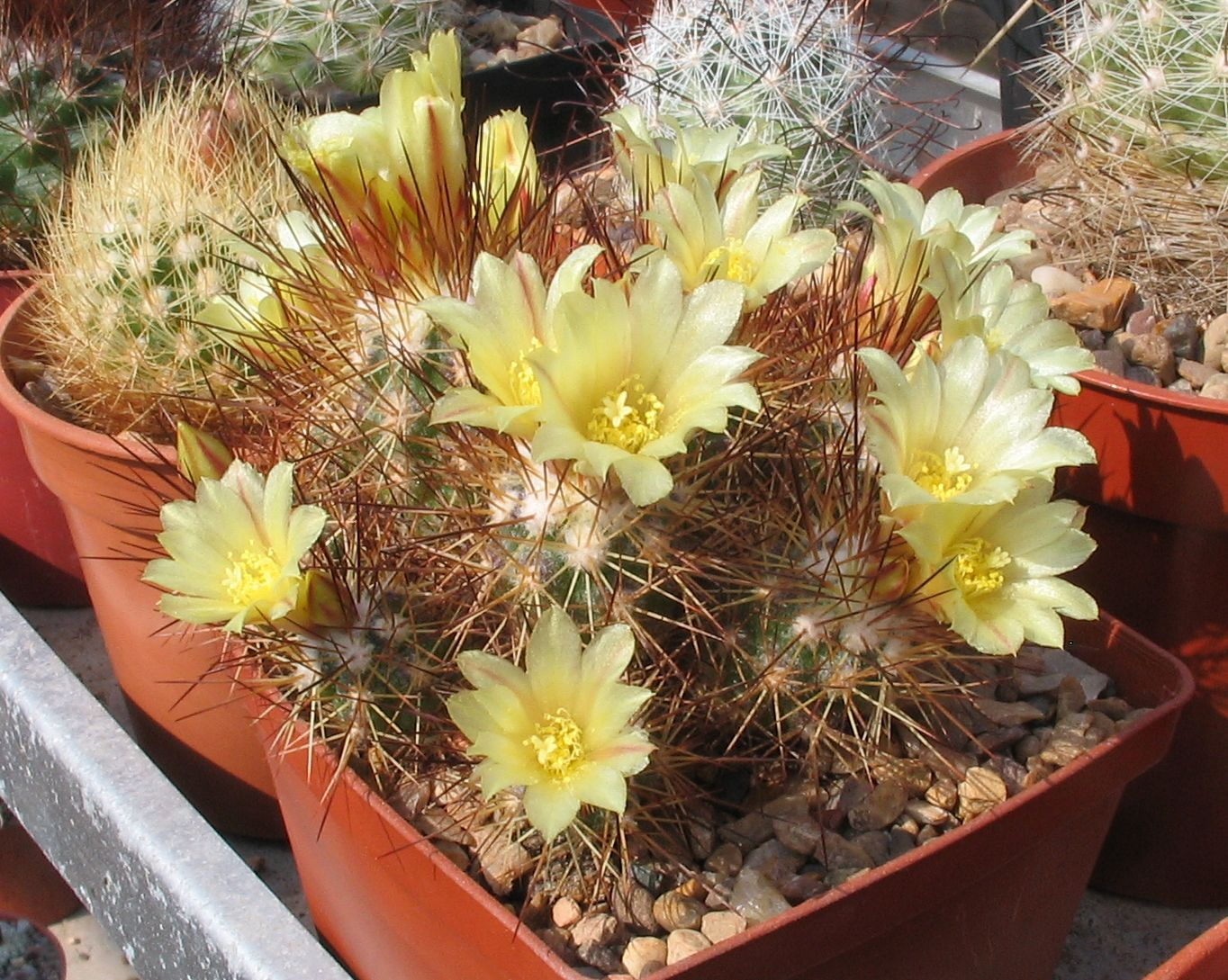 Acharagma huasteca is a cactus species named in 2011.